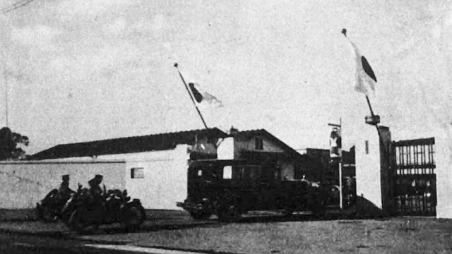 Nakajima Aircraft Company Ota Plant.